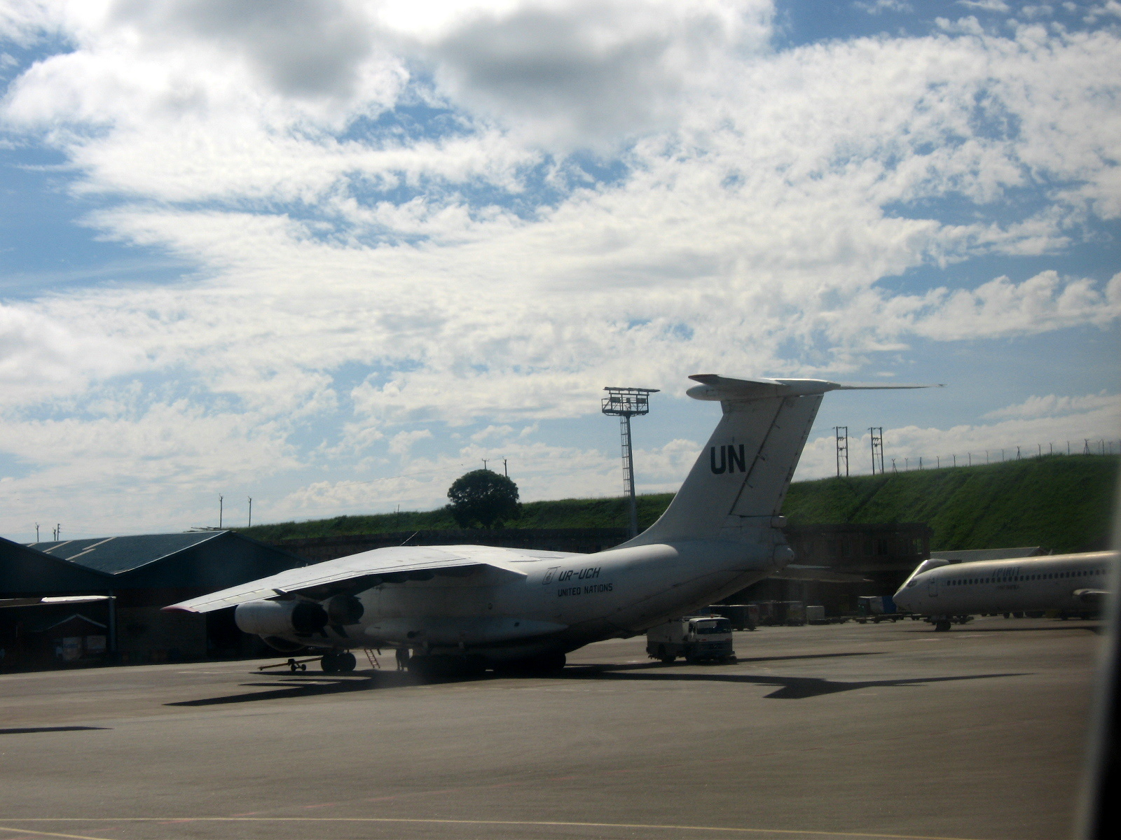 The UN plane parked at Entebbe International Airport.